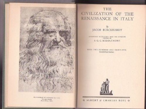 Title page of the Grosse Illustrierte Phaidon-Ausgabe of Jacob Burckhardt’s “The Civilization of the Renaissance in Italy” from 1668. Transcription: JACOB BURCKHARDT DIE KULTUR DER RENAISSANCE IN ITALIEN GROSSE ILLUSTRIERTE PHAIDON-AUSGABE